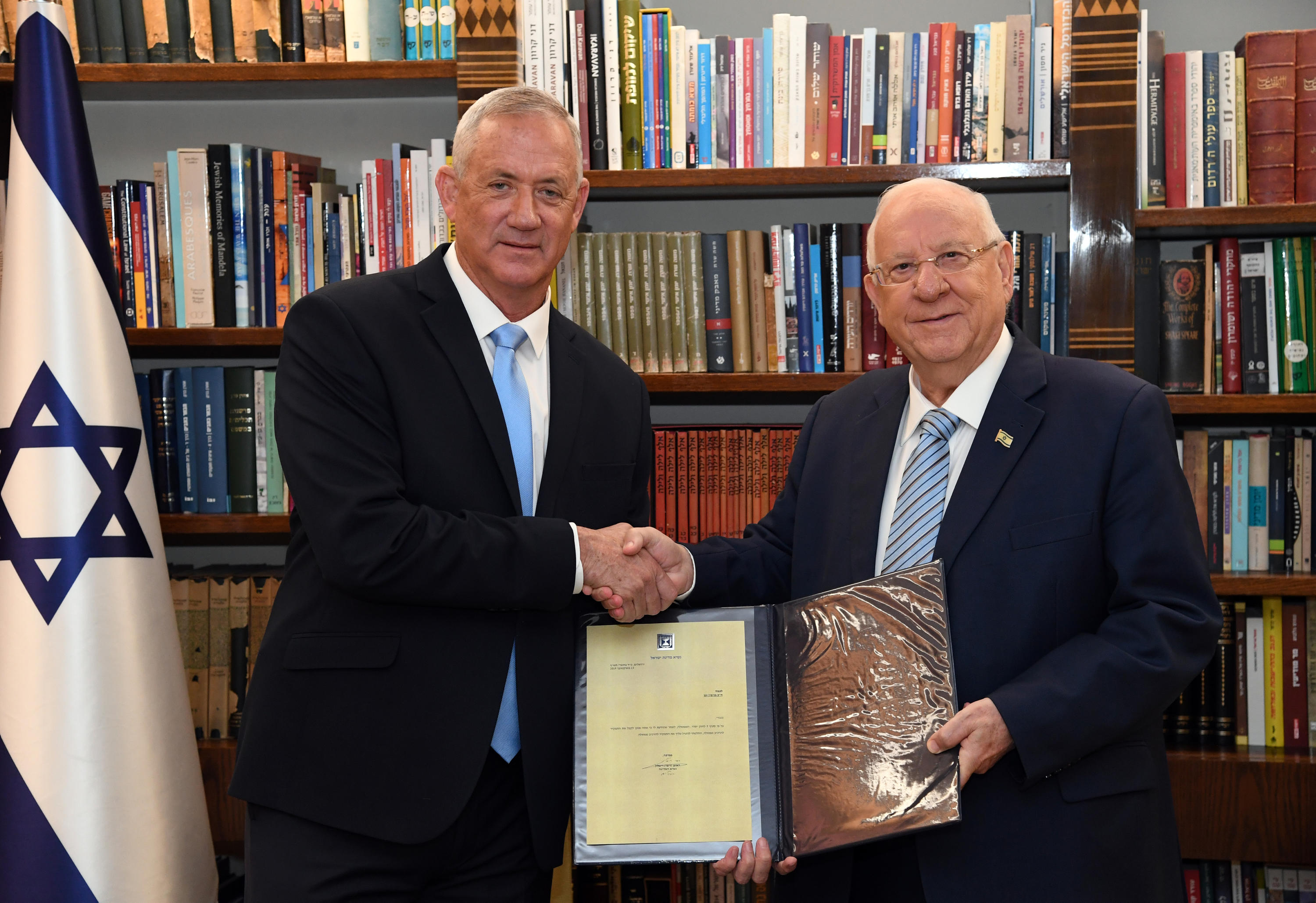 The President of Israel, Reuven Rivlin tasking Beni Gantz with forming the Thirty-fifth government of Israel. Wednesday, October 23, 2019. Credit Photo: Haim Zach / GPO.